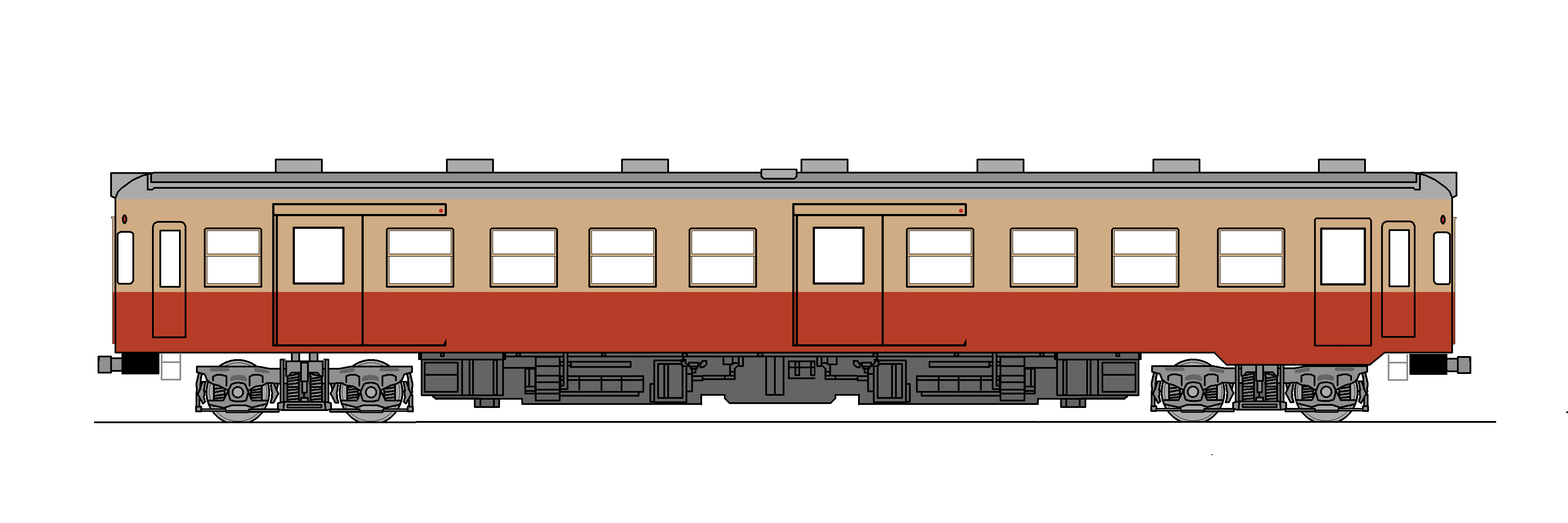 The side view of the DMU series 753 of Kanto Railway.